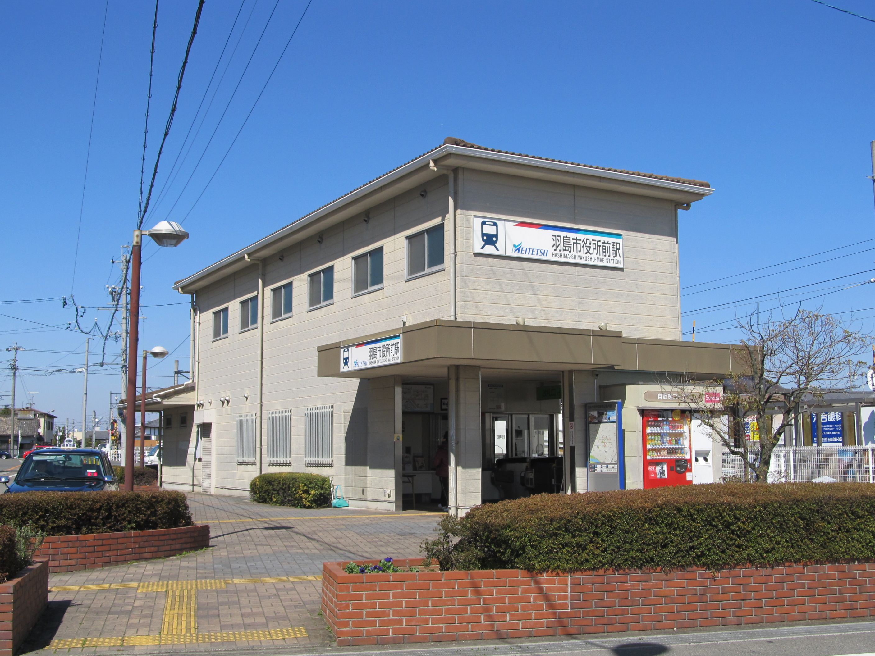 Nagoya Railroad Takehana Line Hashima-shiyakusho-mae Station Building.